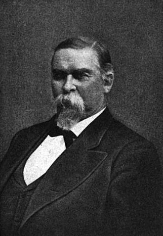 John William Reid, Missouri Congressman.